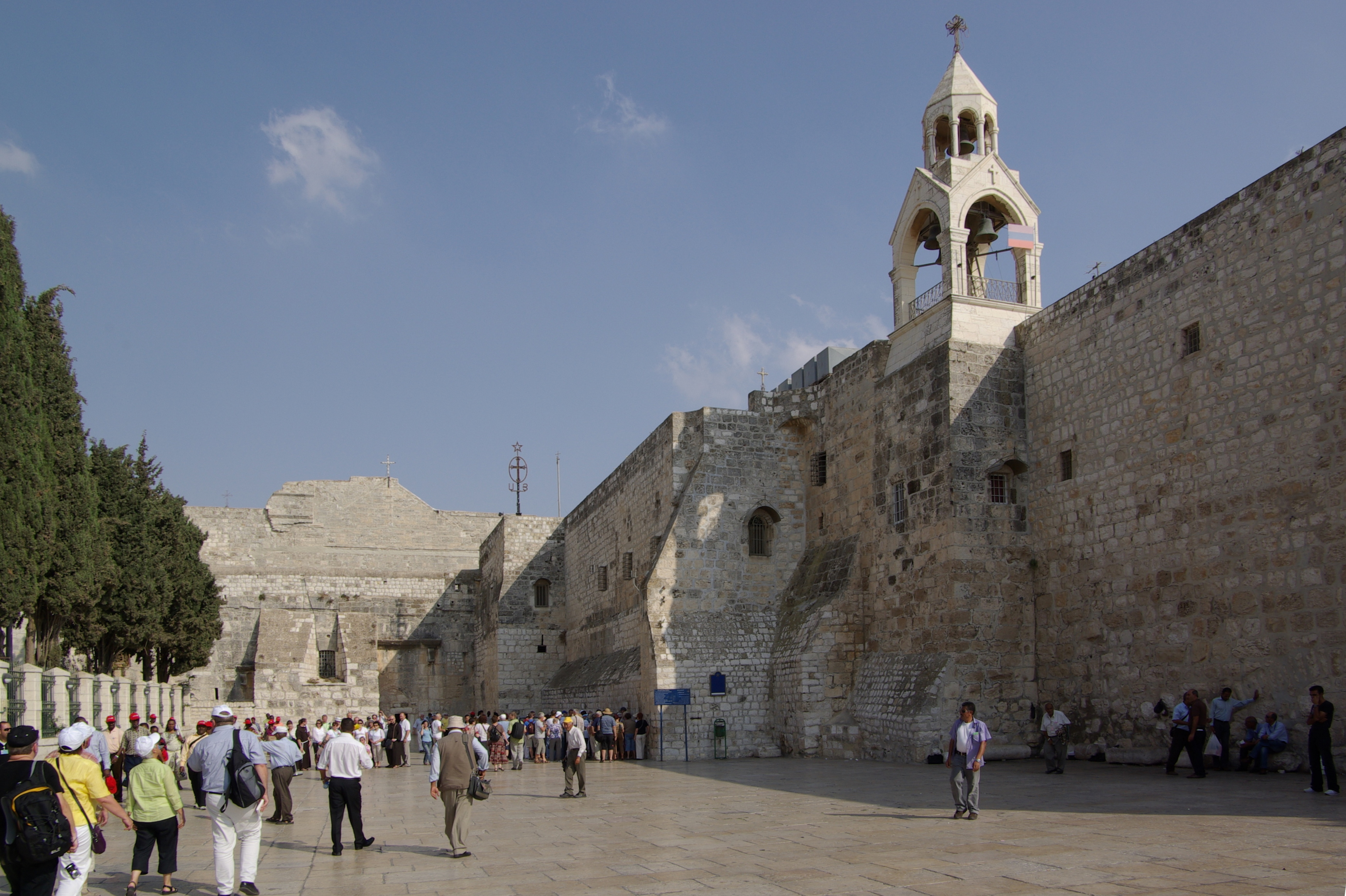 Bethlehem, place in front of the Church of the Nativity